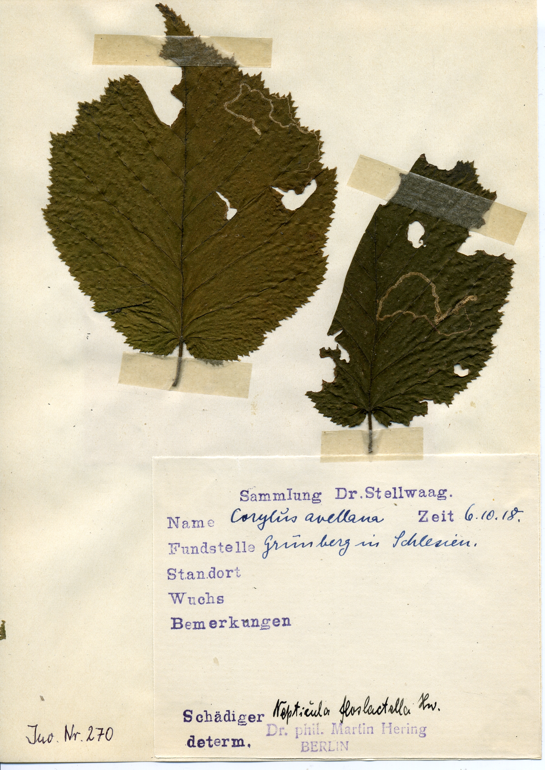 Leaf-mark Coll. Friedrich Ludwig Stellwaag. Host plant: Corylus avellana (Corylaceae) - Parasite: Nepticula floslactella (Nepticulidae) – Location: Grünberg, Schlesien, 6.X.1918, leg. Schmidt, det. Hering, being processed by Gisela Schadewaldt.